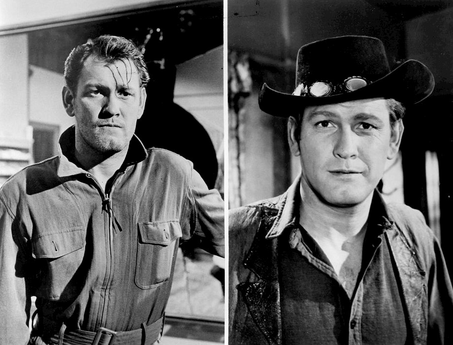 Composite photo of Earl Holliman. The left photo shows him as Mike Ferris in the premiere episode of The Twilight Zone, "Where is Everybody?". The right is as Sundance in "Hotel De Paree". Both programs premiered on the same night.